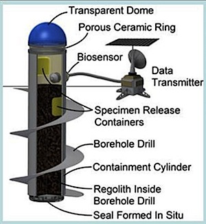 NASA's "Mars Ecopoiesis Test Bed" would test in Mars some canisters with extremophilic photosynthetic algae and Cyanobacteria for the production of oxygen on Martian soil. If the experiment works on Mars, large scale and sealed biodomes would be built on Mars to produce and bottle enough oxygen for astronauts' life-support systems.